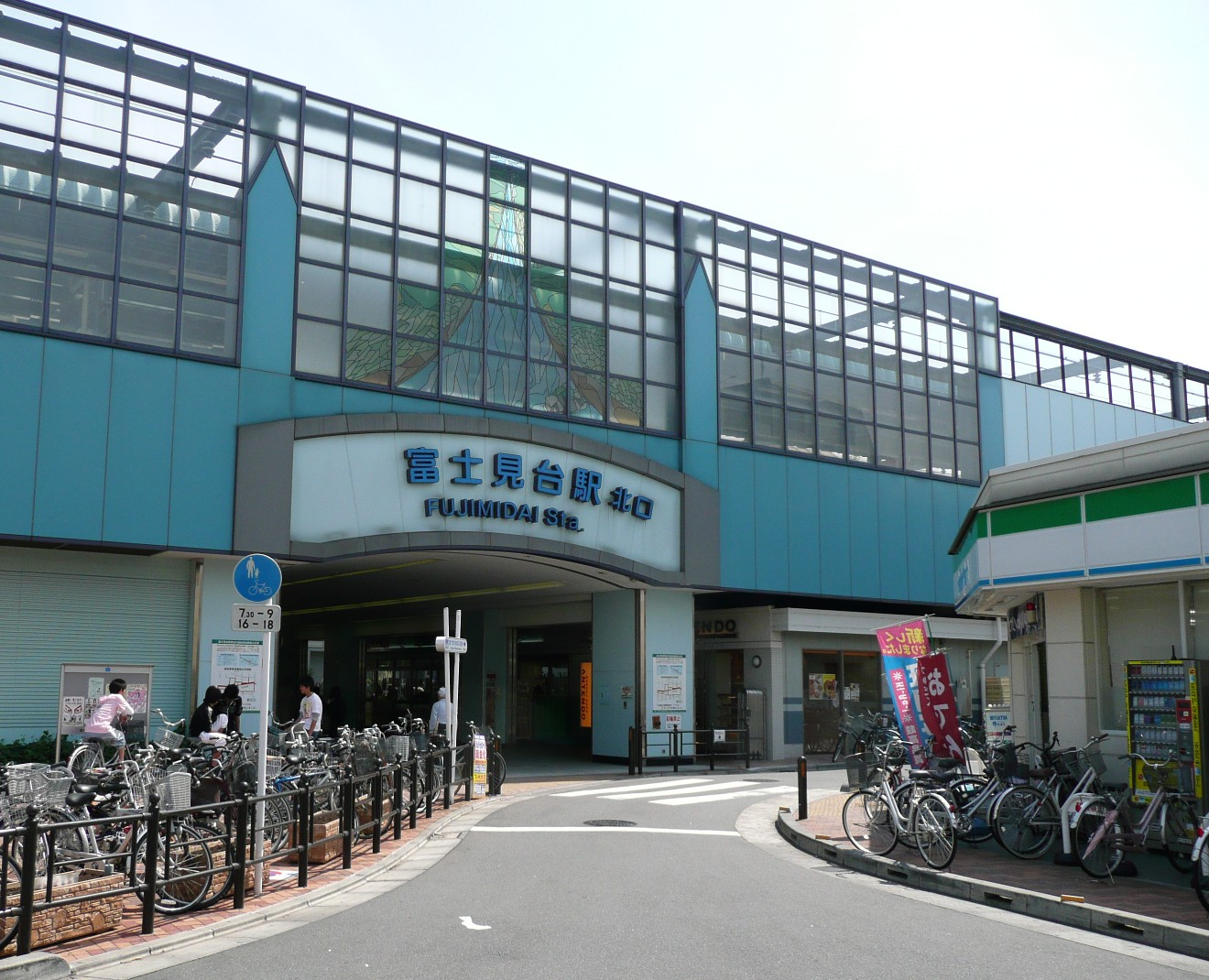 Fujimidai Station north entrance.